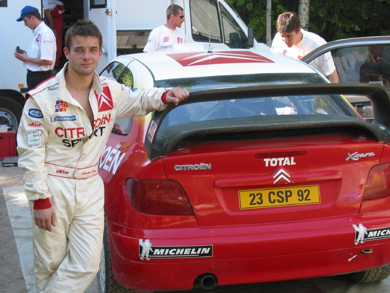 Citroën World Rally Team with their drivers Sébastien Loeb and Thomas Rådström testing in Finland in May, 2002.